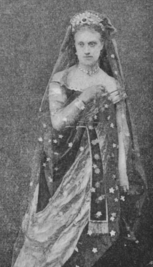 Swedish actress Louise Michaëli (1830-1875) as "Nattens drottning", "Queen of the night".